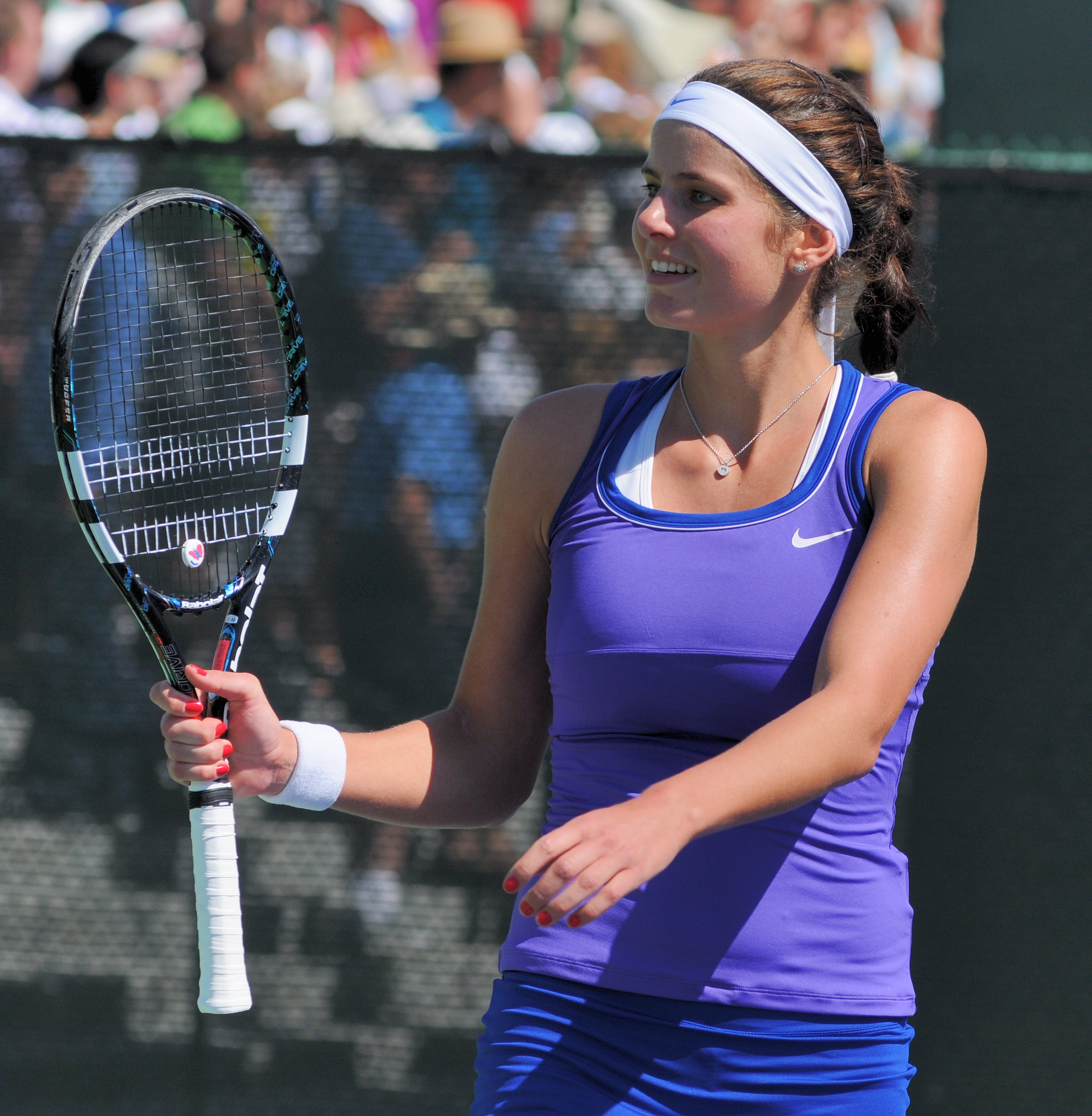 Julia Goerges at the BNP Paribas Open 2012